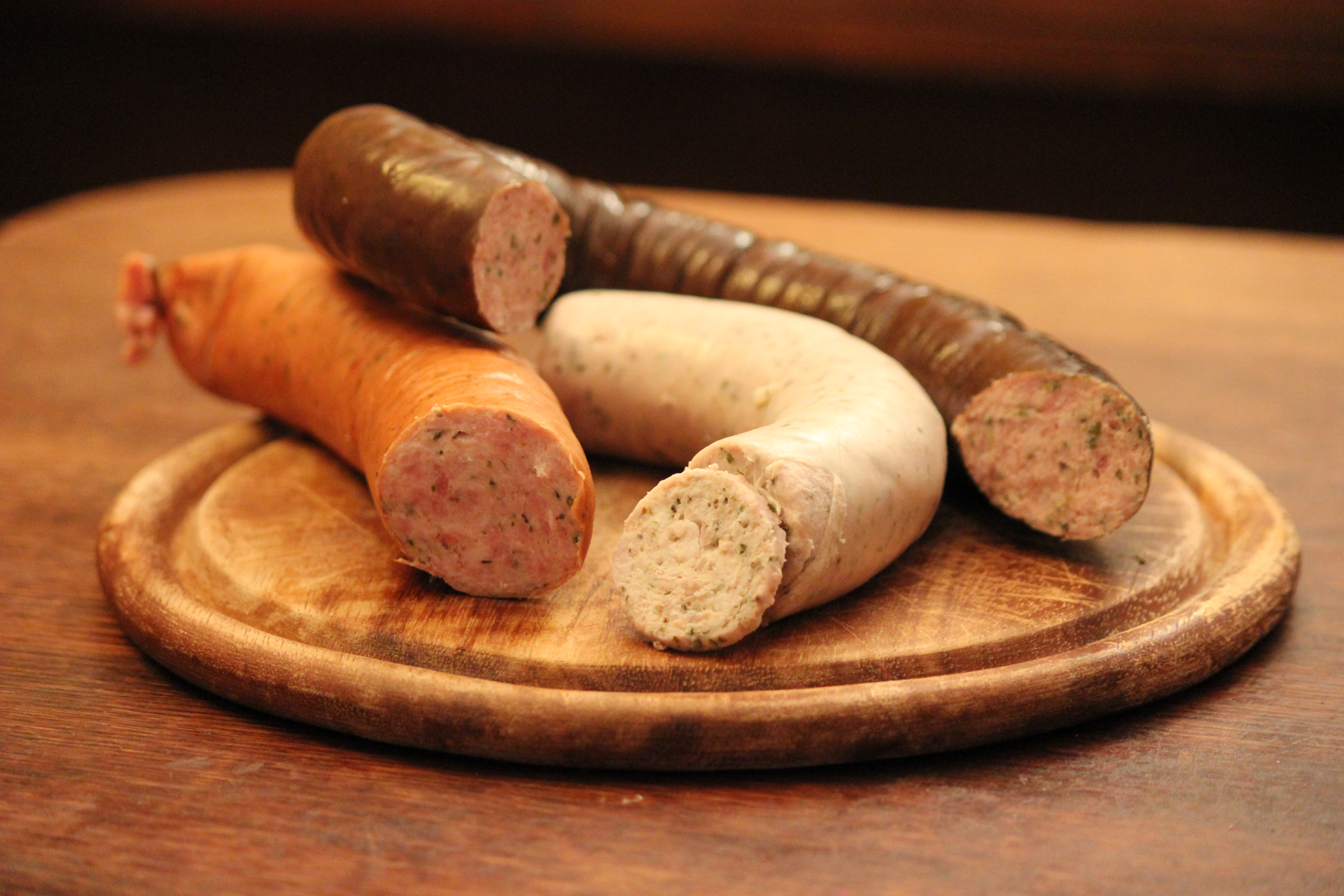 Franconian Stadtwurst sausages from Heideck